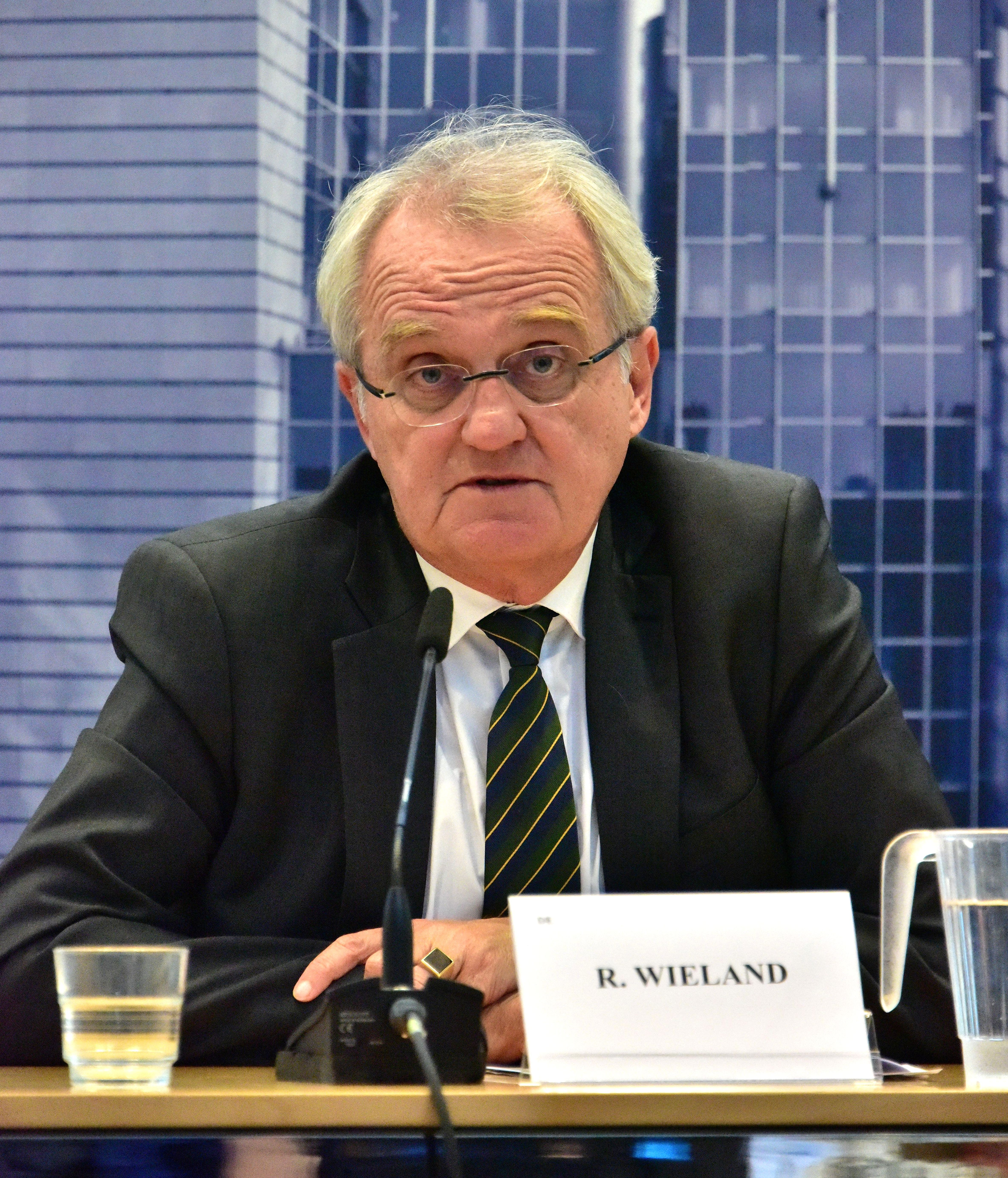 MEP Rainer Wieland during an ECPRD seminar The future of parliamentary research services and libraries in an era of rapid change: How best to support elected members in their multiple roles in the Reading Room of the European Parliament Library in Brussels (Altiero Spinelli building)